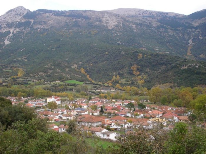 Thiamos from above